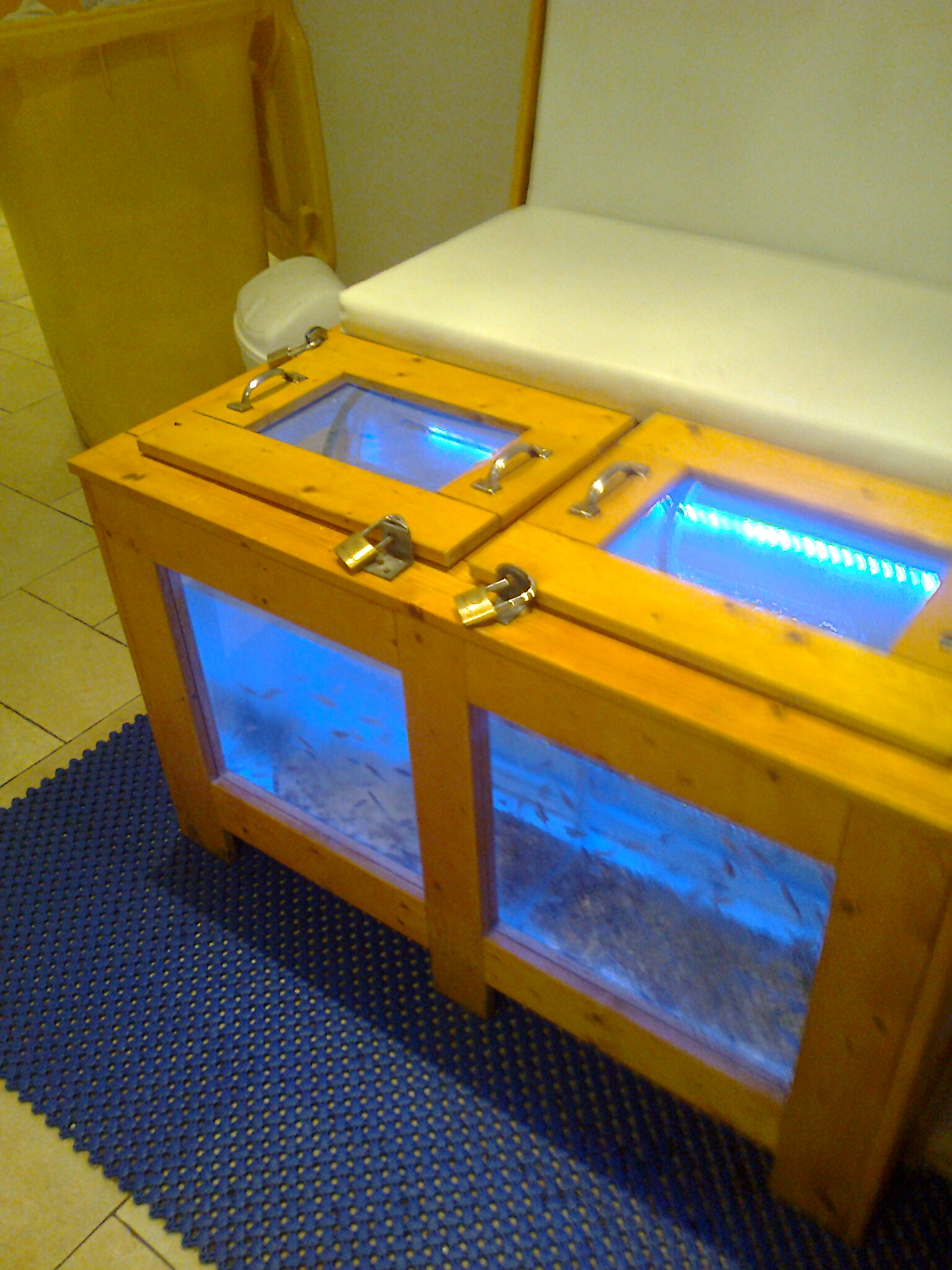 fish therapy tank for both feet. At a resort on the Israel shores of Dead Sea.